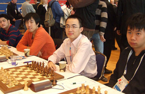 China's Olympiad Open chess team in Dresden, Germany